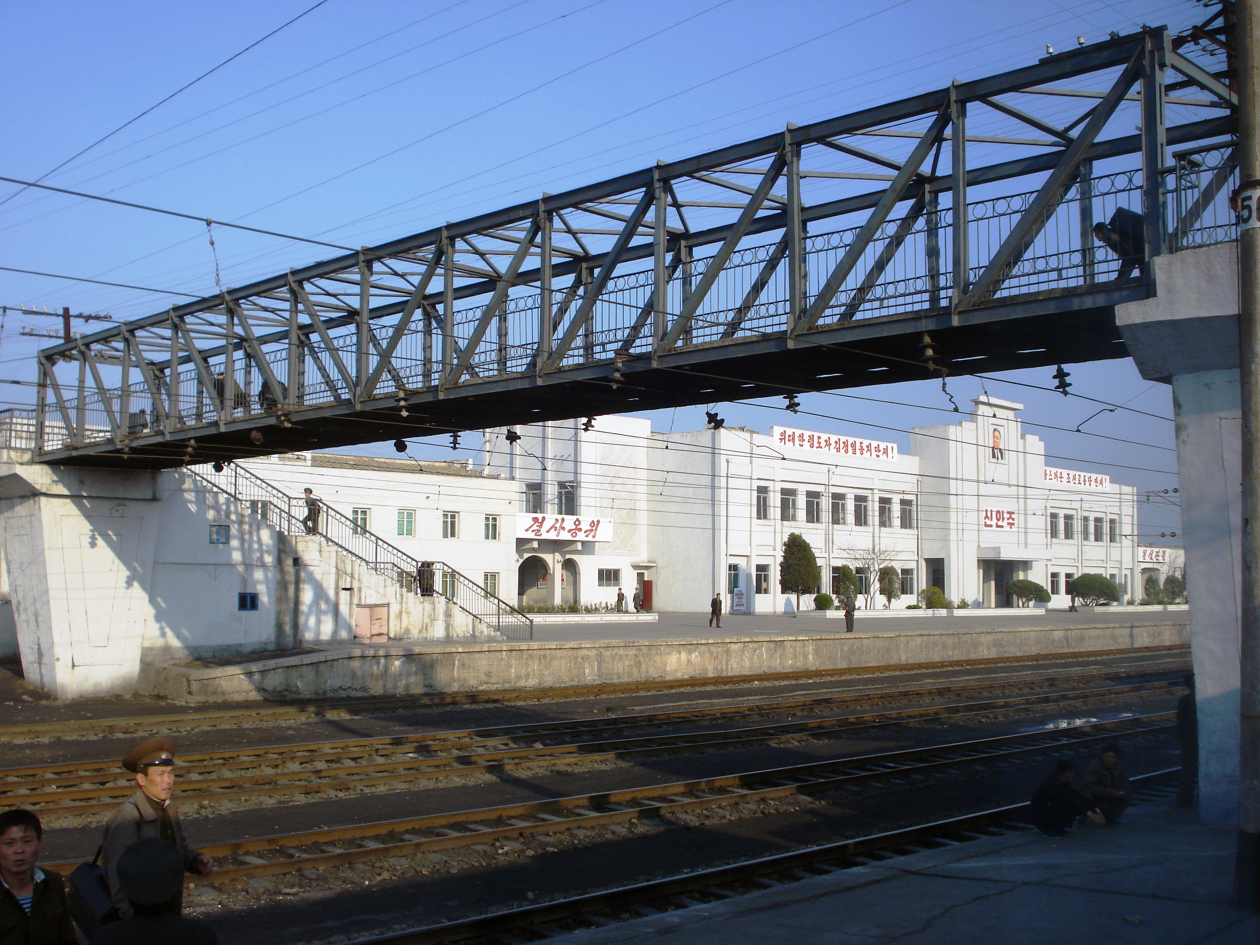 DPRK railway station